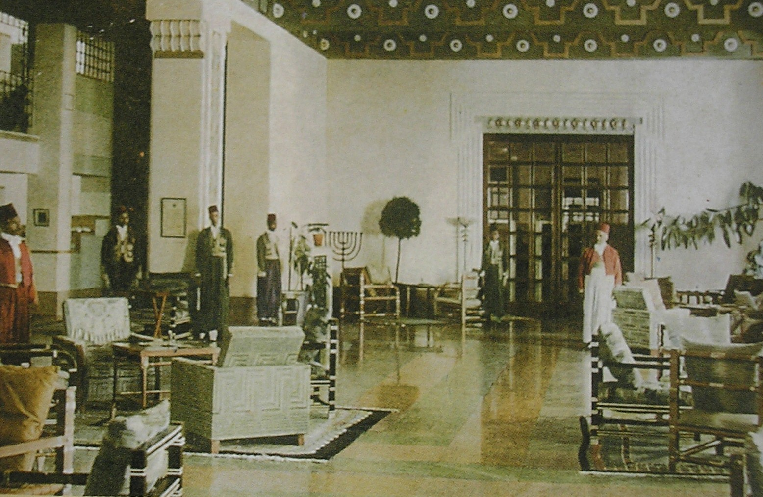 King David Hotel's lobby. 1930s